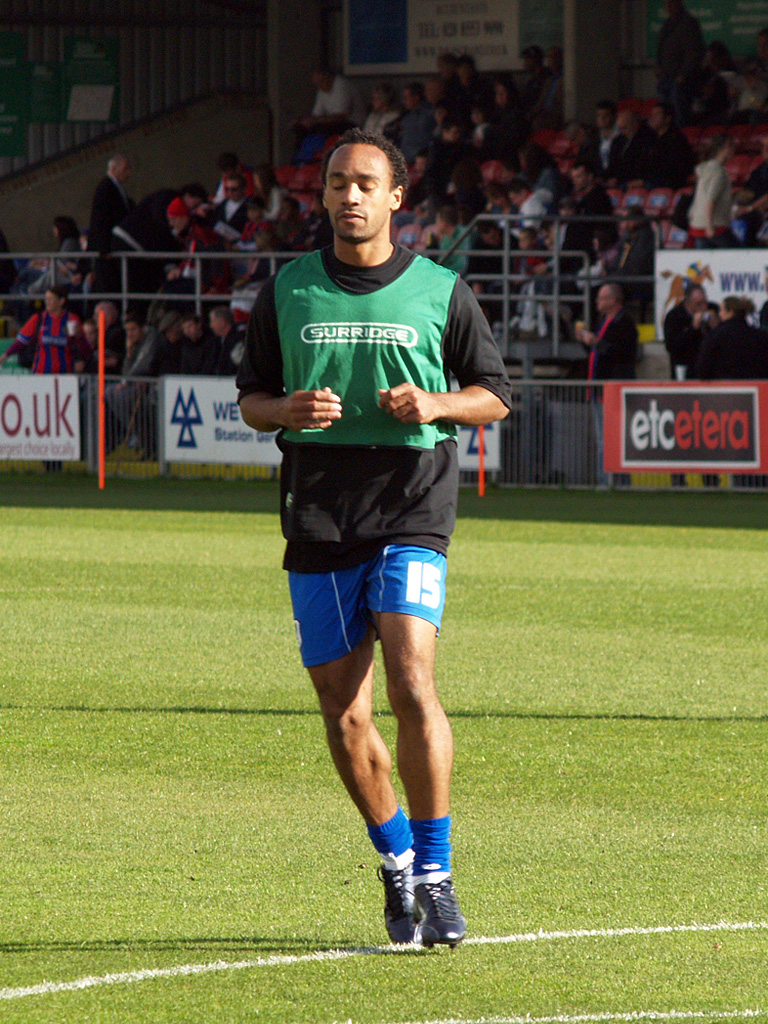 Bury FC striker Chris O'Grady warming up before the Dagenham & Redbridge vs. Bury game at the London Borough of Barking and Dagenham Stadium, home of Dagenham & Redbridge FC. Saturday18th October 2008